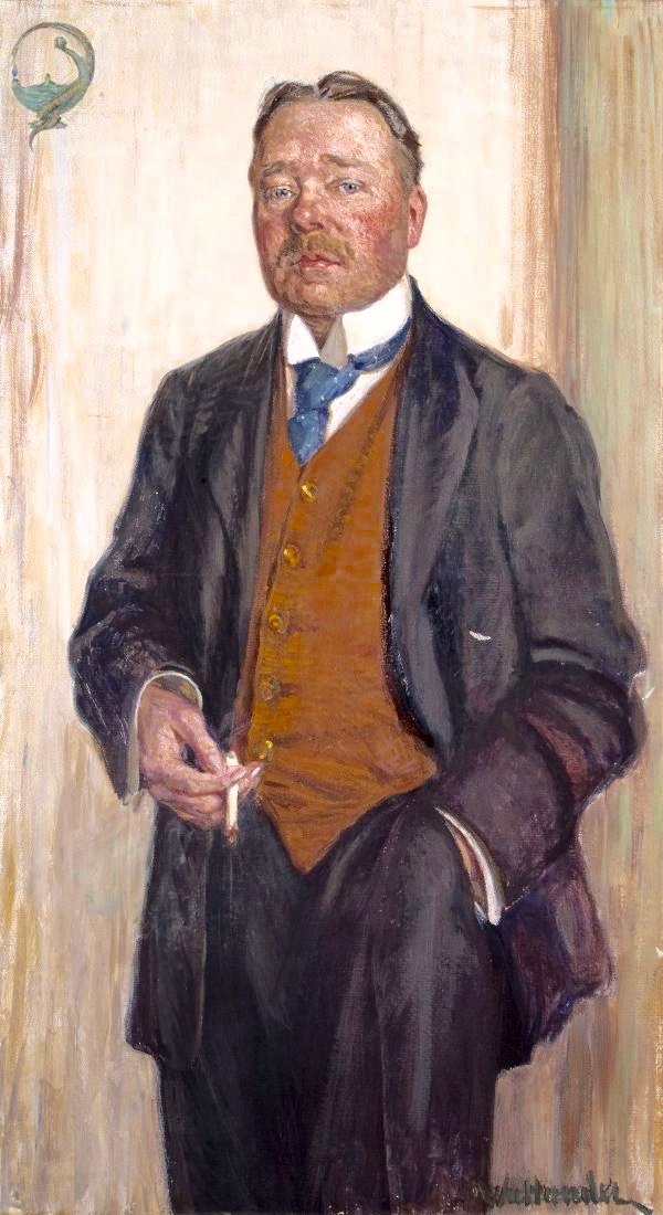 The author Hjalmar Söderberg. Oil on canvas (114 x 69 cm) in 1916 by Gerda Wallander (1860-1926).